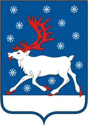 Kola rayon (Murmansk oblast), coat of arms